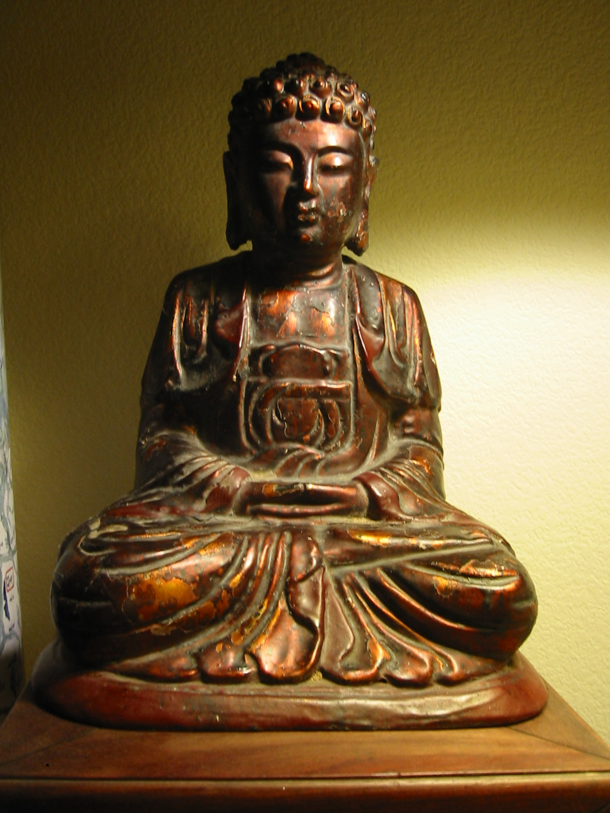 Vietnamese devotional statue of the historical Buddha